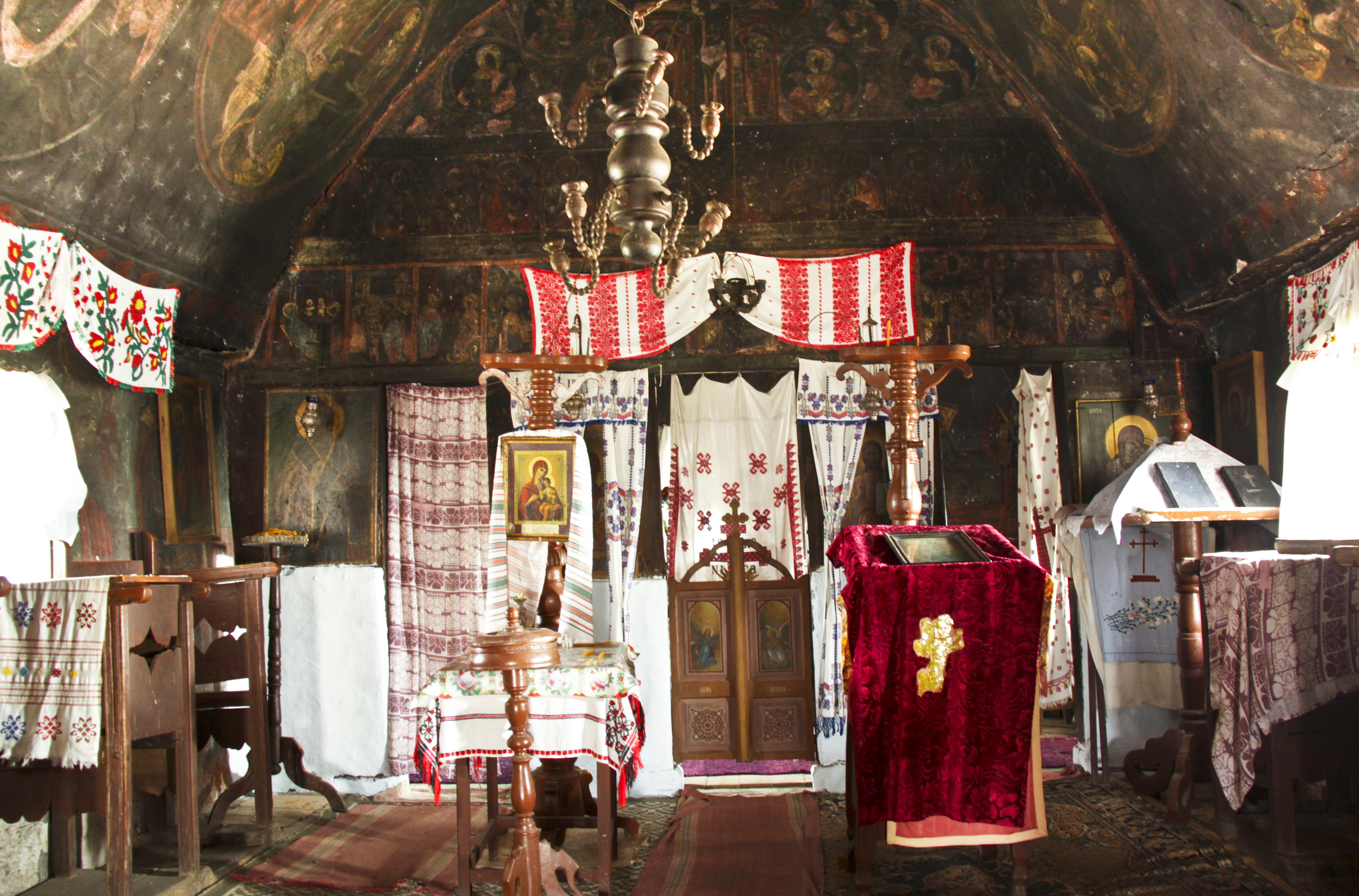 Voroveni, Argeş county, Romania: the wooden church.